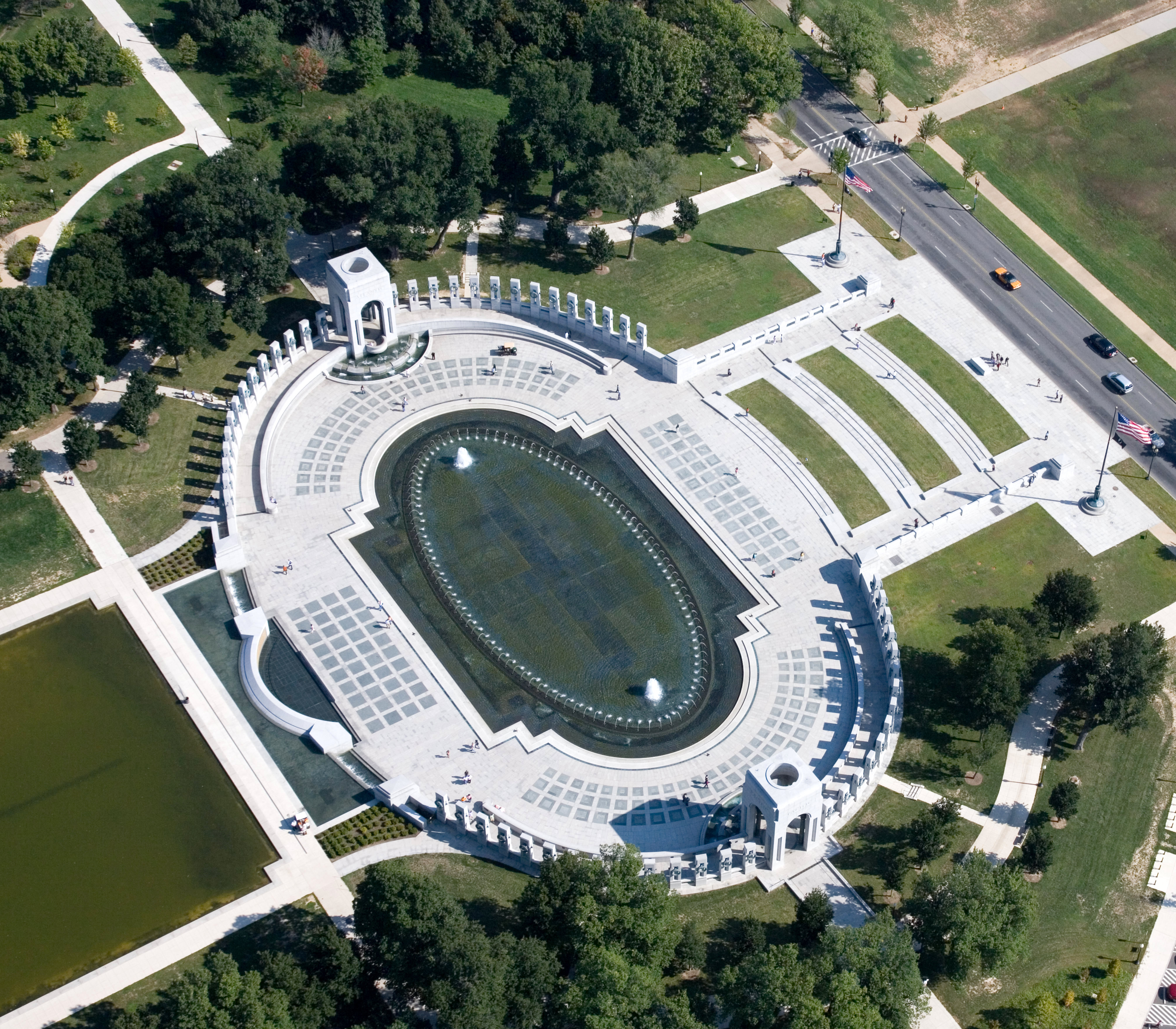 Aerial view of the National World War II Memorial in Washington, D.C.